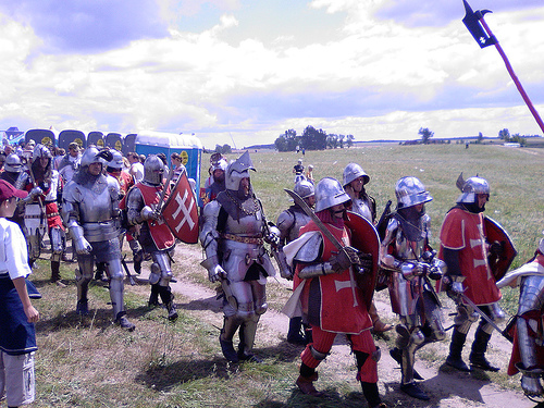 Re-enactment of the Battle of Grunwaldna bitwe; zakute